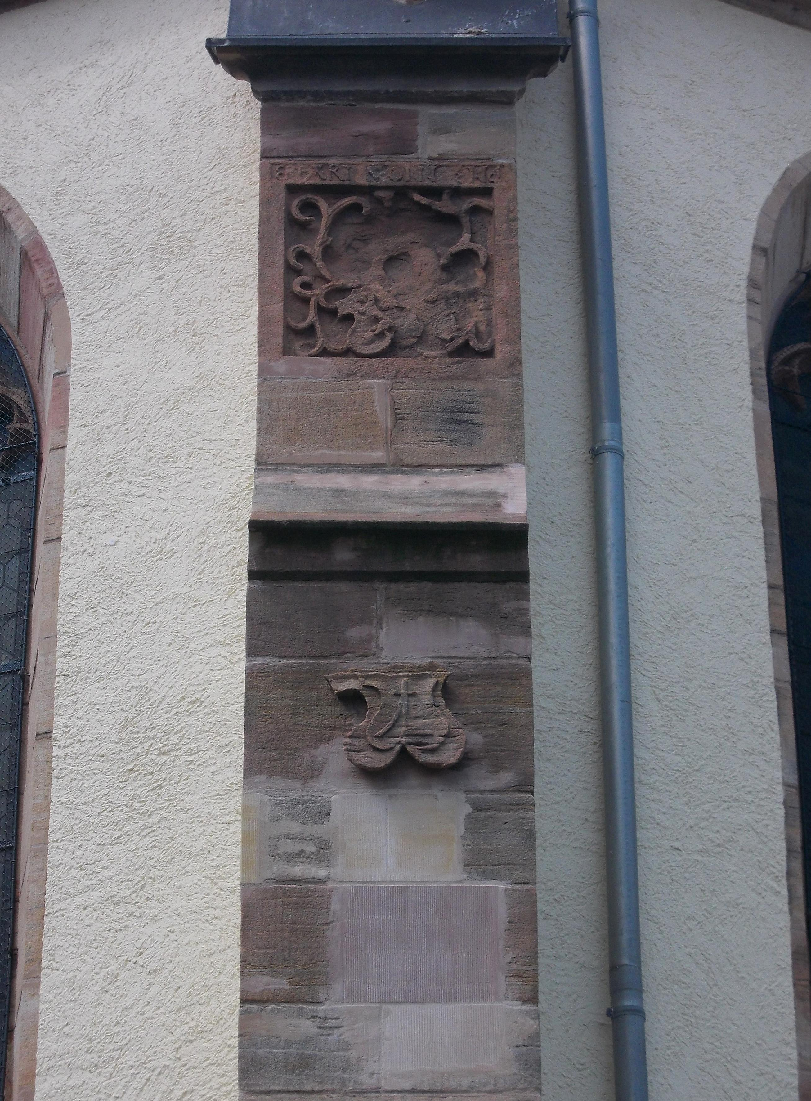 Grossstechau church (Löbichau, Altenburger Land district, Thuringia)